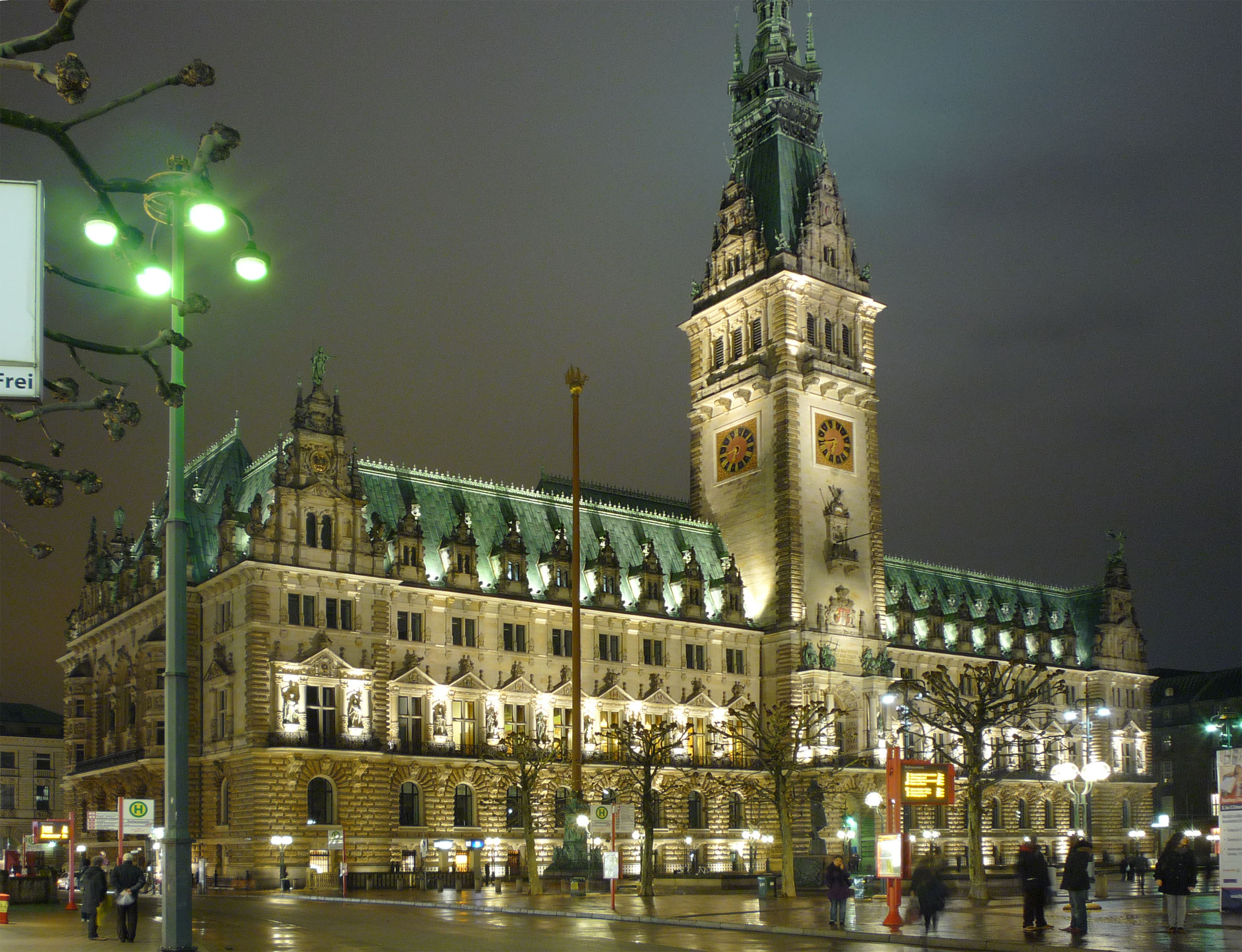 Germany, Hamburg Hamburg city hall, Germany This is a photograph of an architectural monument. , 12254